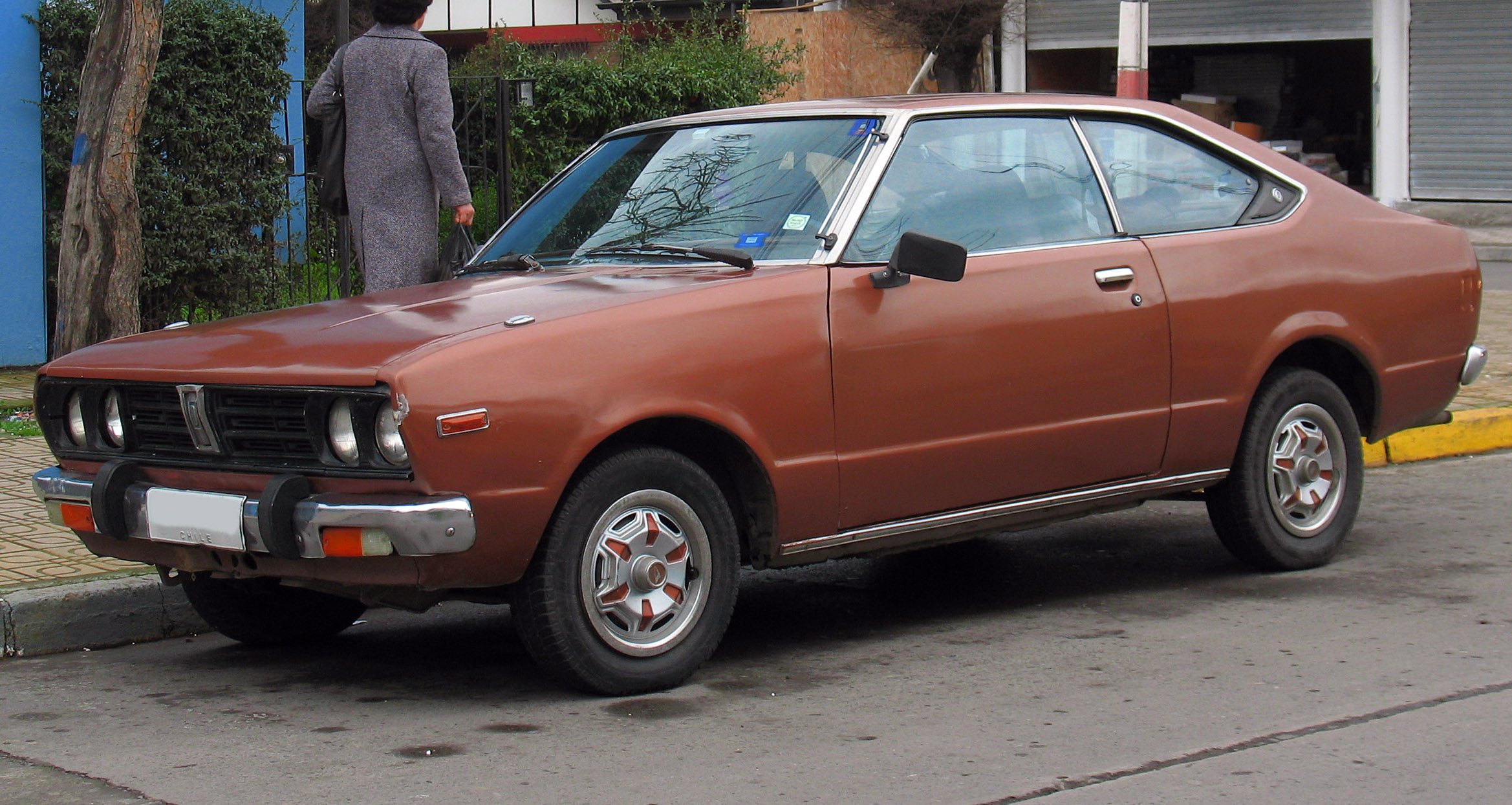 1979 Datsun 160J Fastback Coupé